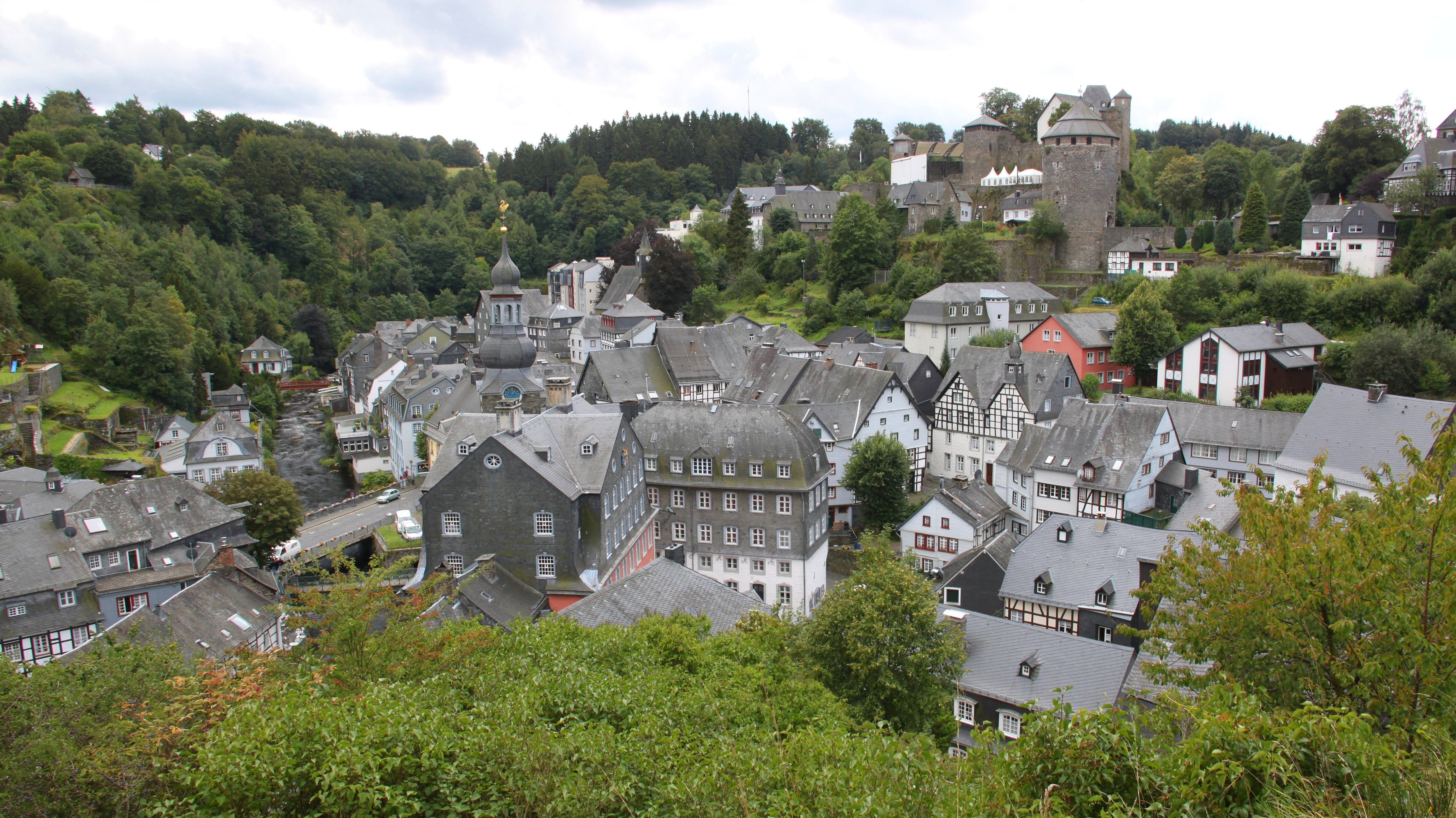 View on Monschau.